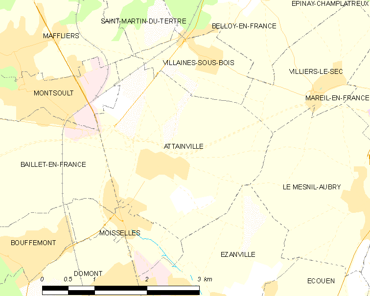 Map of French municipality Attainville